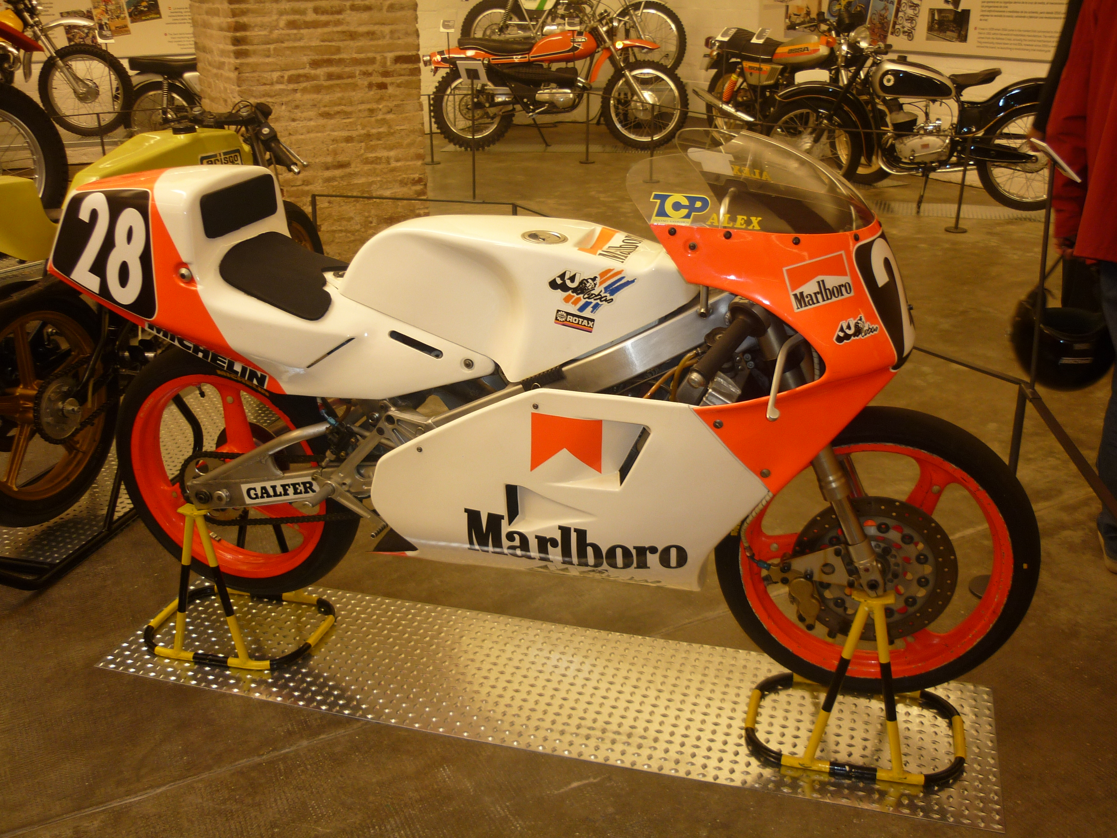 Àlex Crivillé's JJ Cobas 125cc (Rotax engine). On this bike, Crivillé won the 1989 Riders' World Championship. Museu de la Moto de Barcelona (Catalonia).